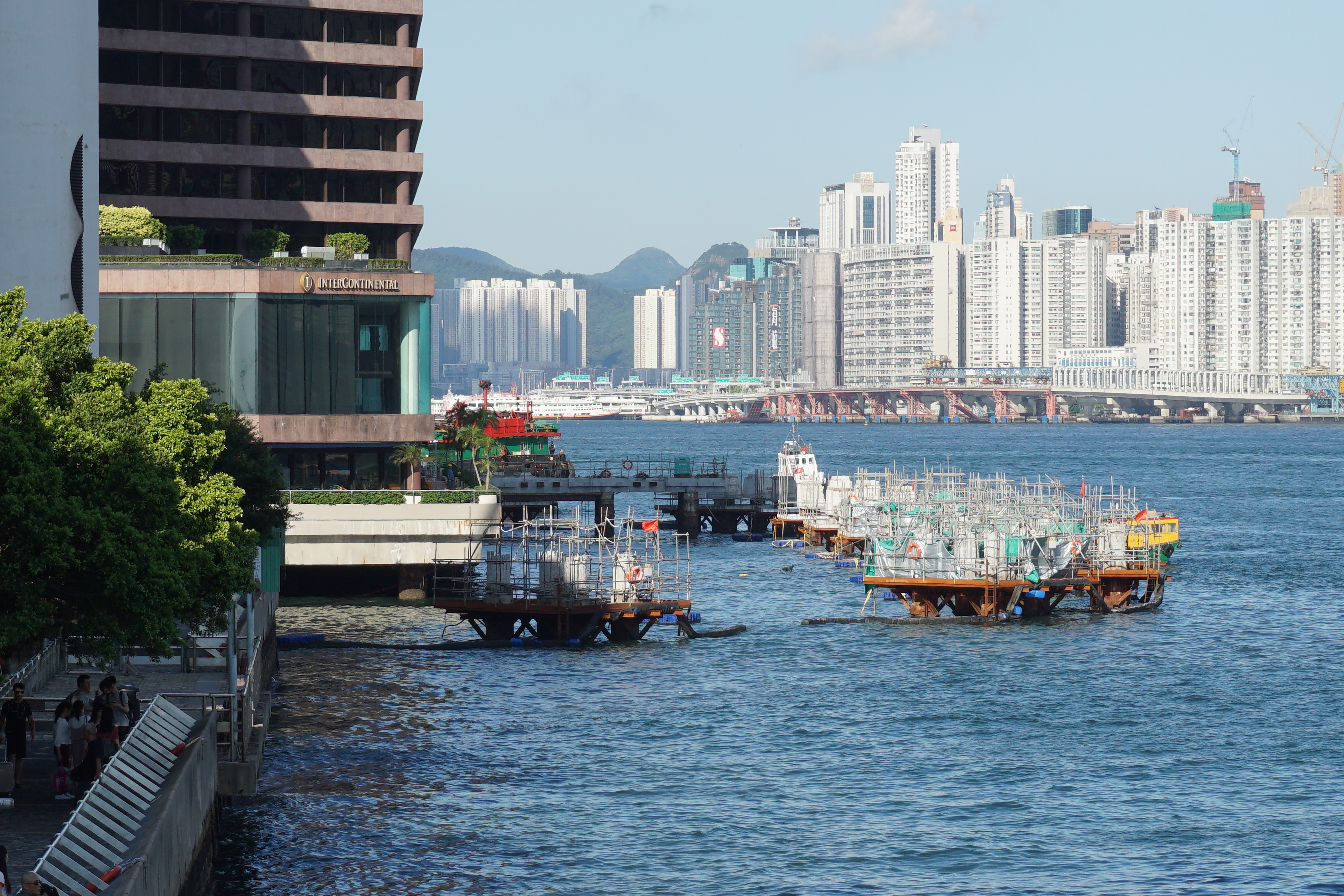 Avenue of Stars in Tsim Sha Tsui, Hong Kong.